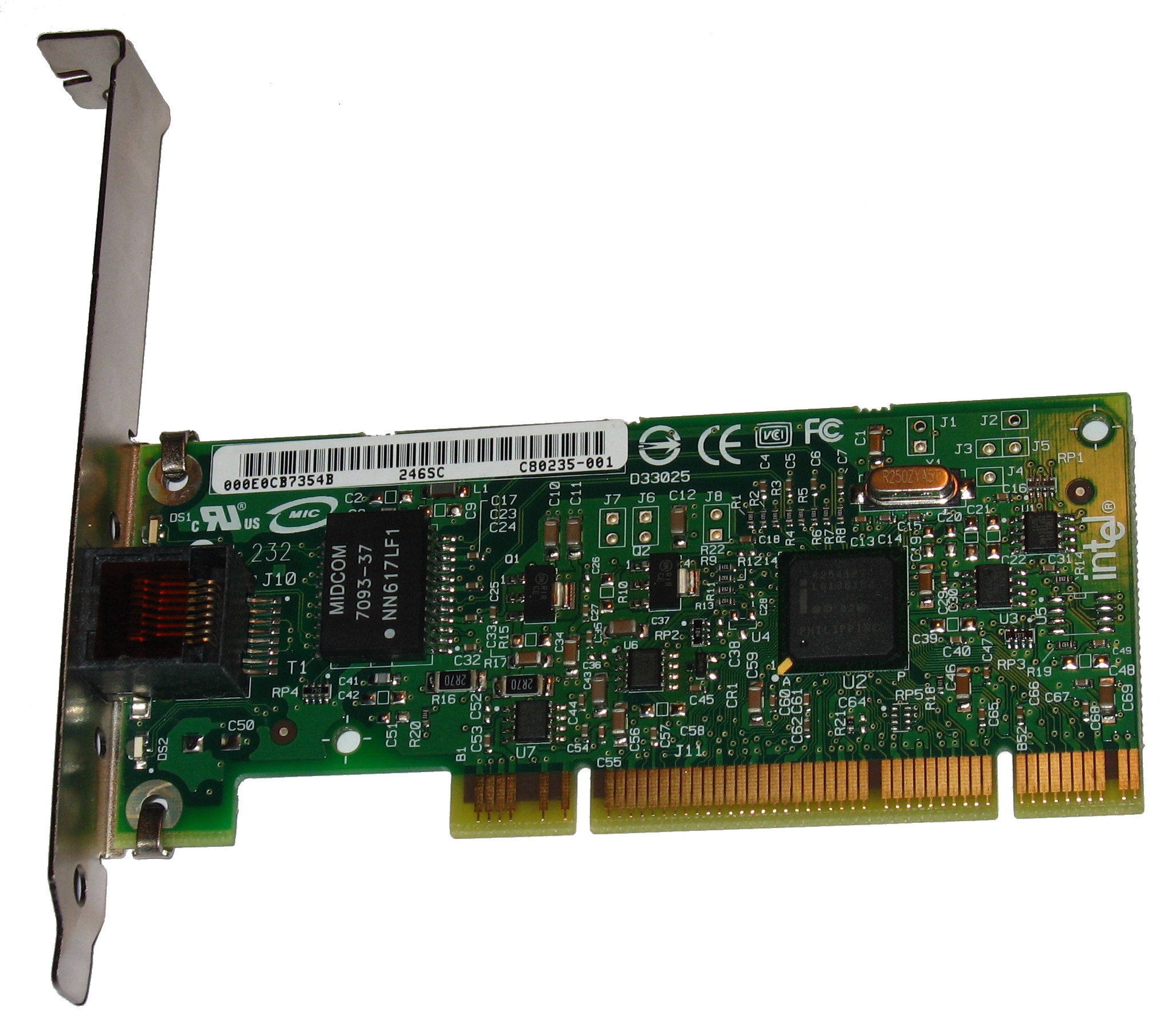 Intel Pro/1000 GT Gigabit Ethernet PCI Network card